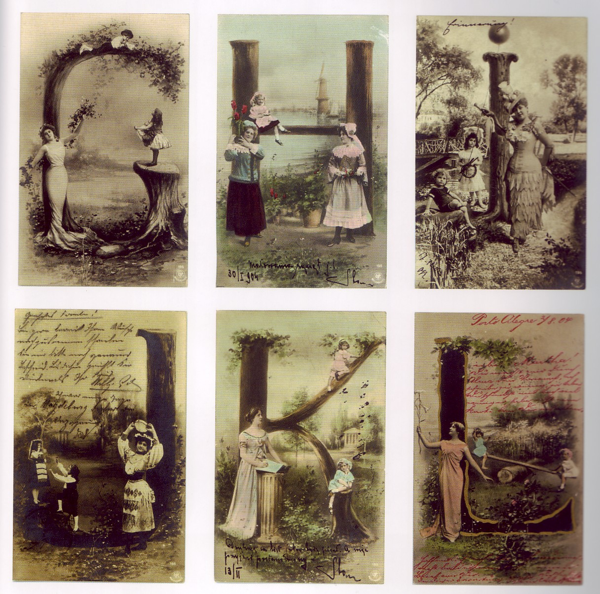 Postcards, produced by the "Neue Photographische Gesellschaft Steglitz" (New Photogaphic Society Berlin-Steglitz).